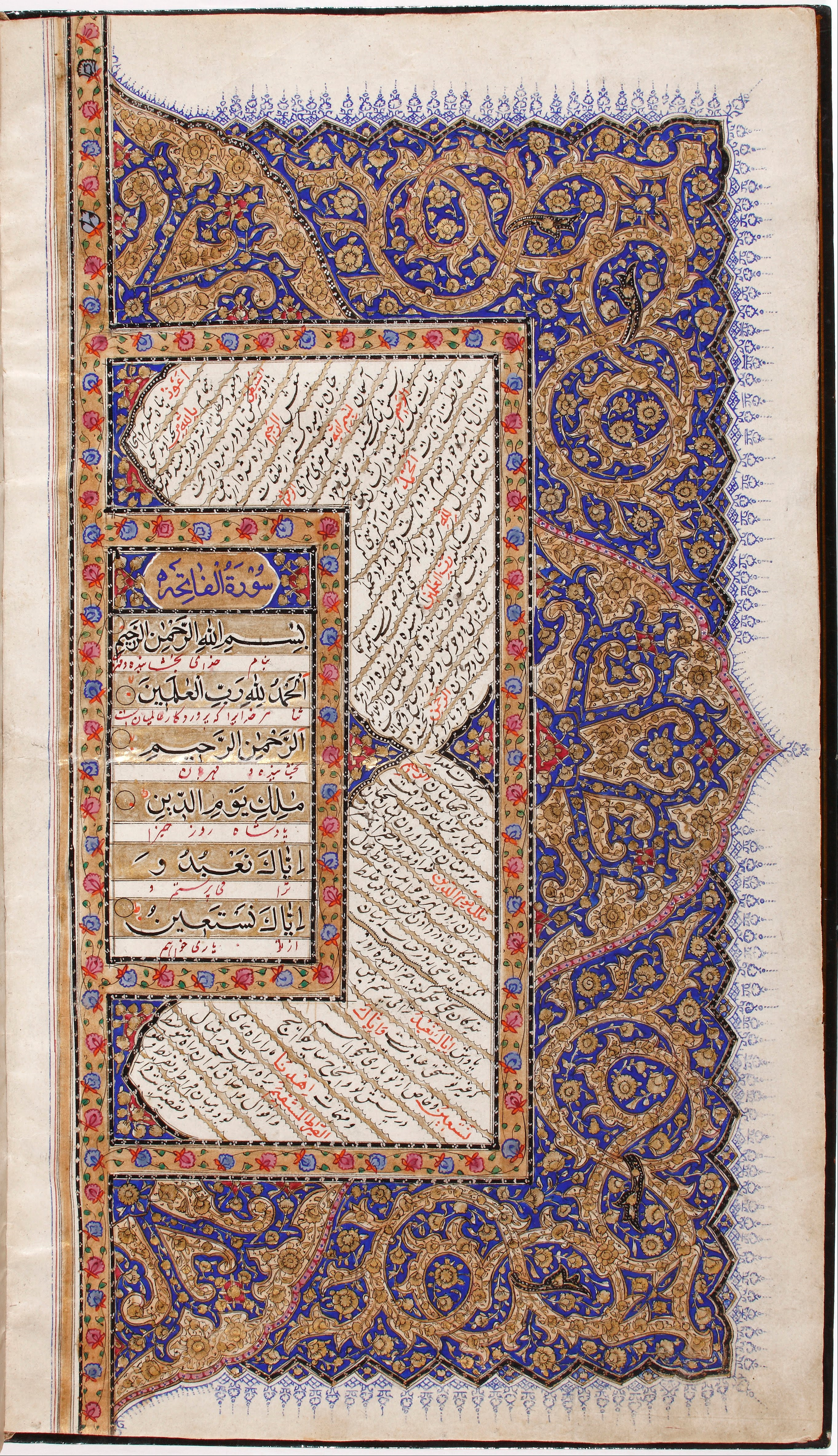 Arabic copy with Persian interlinear translation and a commentary of the Quranic text apart, also in Persian, entitled Jawahir al-tafsir -Gems of interpretation- of Kamal al-Din Ibn Ali Wa'ez Hoseyn (m.1505). This poet and Muslim preacher -wa'ez- active in the Timurid court of Herat, was the author of Akhlaq al-Mohseni, Anwar-e Soheyli and Rowzat al-Shuhada, using the pseudonym Kashefi. The text of the Quran appears in black nasjí writing, the interlinear Persian translation in red nasjí and the commentary in the margins with nastaliq fine and precise writing. The initial pages have luxurious frontispieces with iluminated and polychrome decoration, including the double-page –safat al-unwan– with the first azora and the beginning of the second. Also the polychrome lacquer binding with floral motifs deserves the attention.